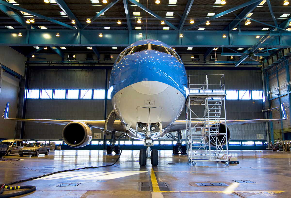 TUIFly Nordic Boeing 767-300ER in TUIFly Nordic hangar at Stockholm Arlanda.